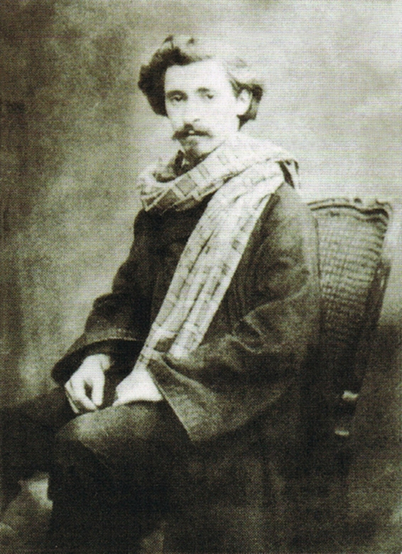 Portrait of Jan Verhas